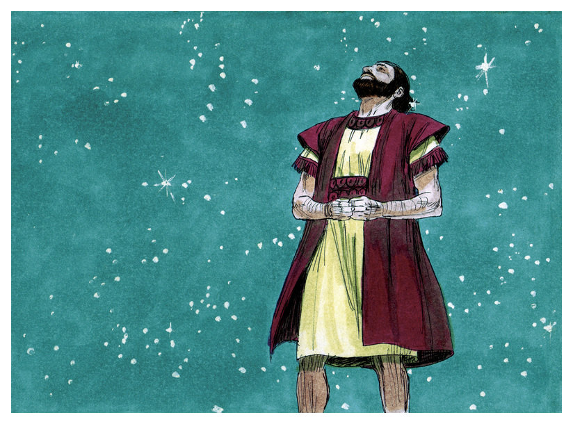 Biblical illustration of Book of Genesis Chapter 15